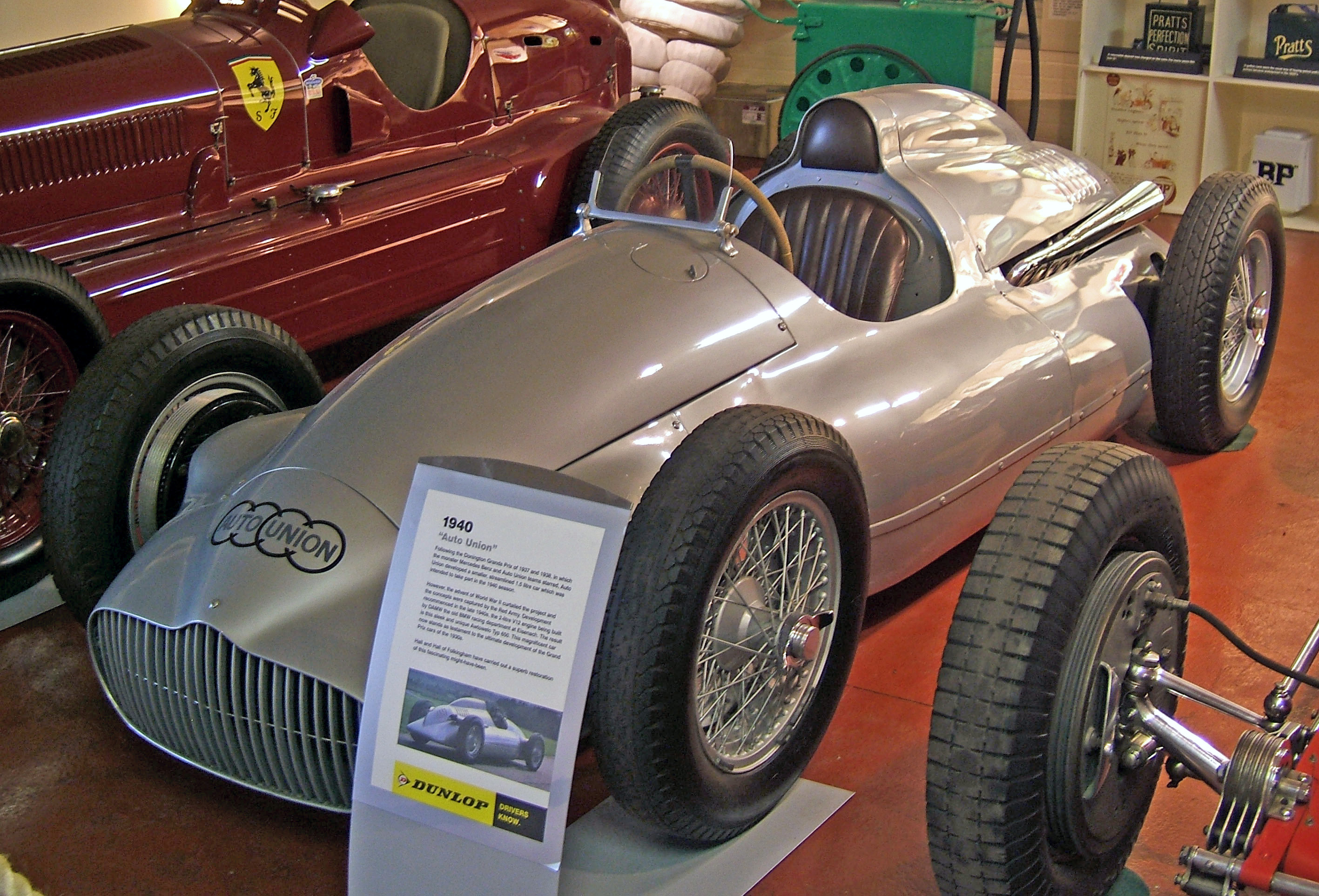 The final Auto Union Grand Prix racer, the Sokol 650. Actually designed and built by a team of ex-AU staff under the direction of the Soviet government in 1945, but based on old Auto Union designs.